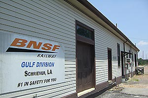 Schriever station visited in August 2008